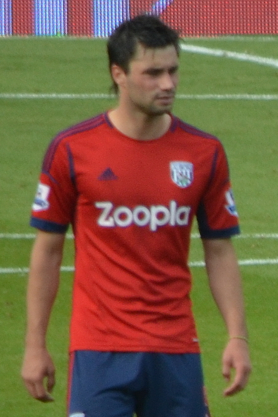 WBA at start of second half